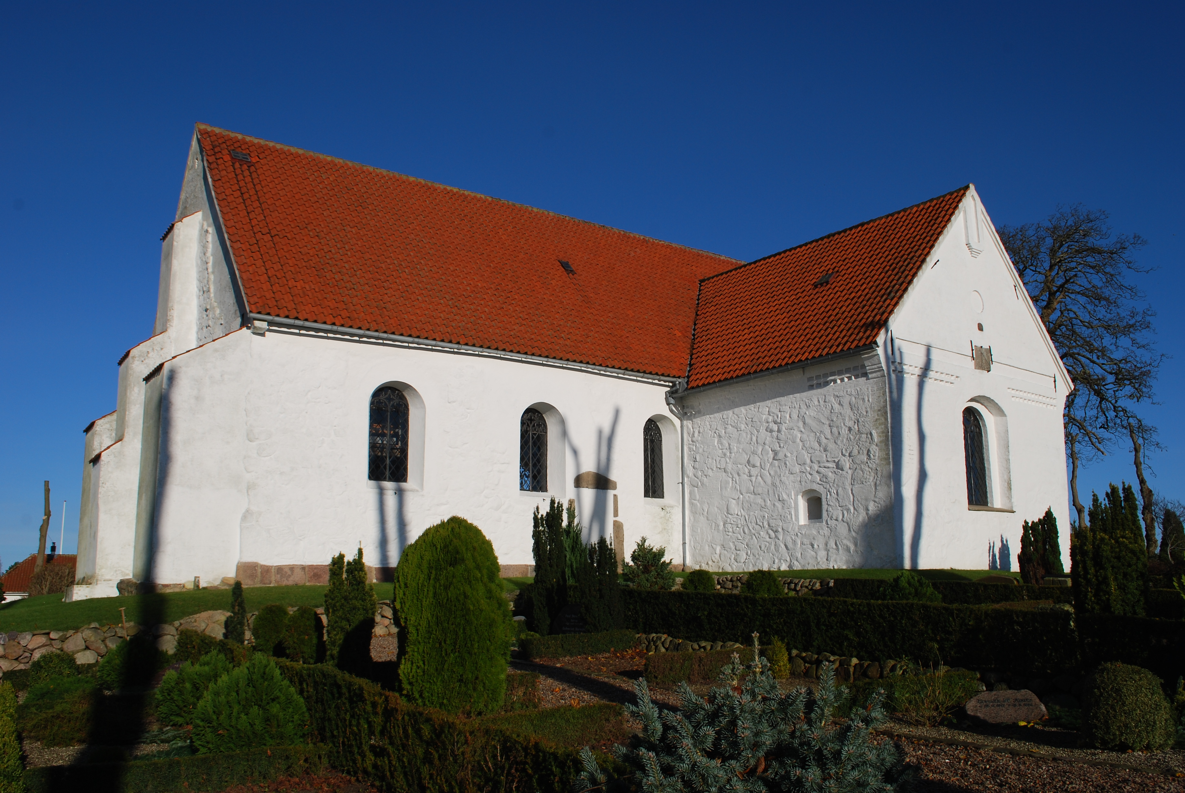 Church of Varnæs, Sundeved, Denmark